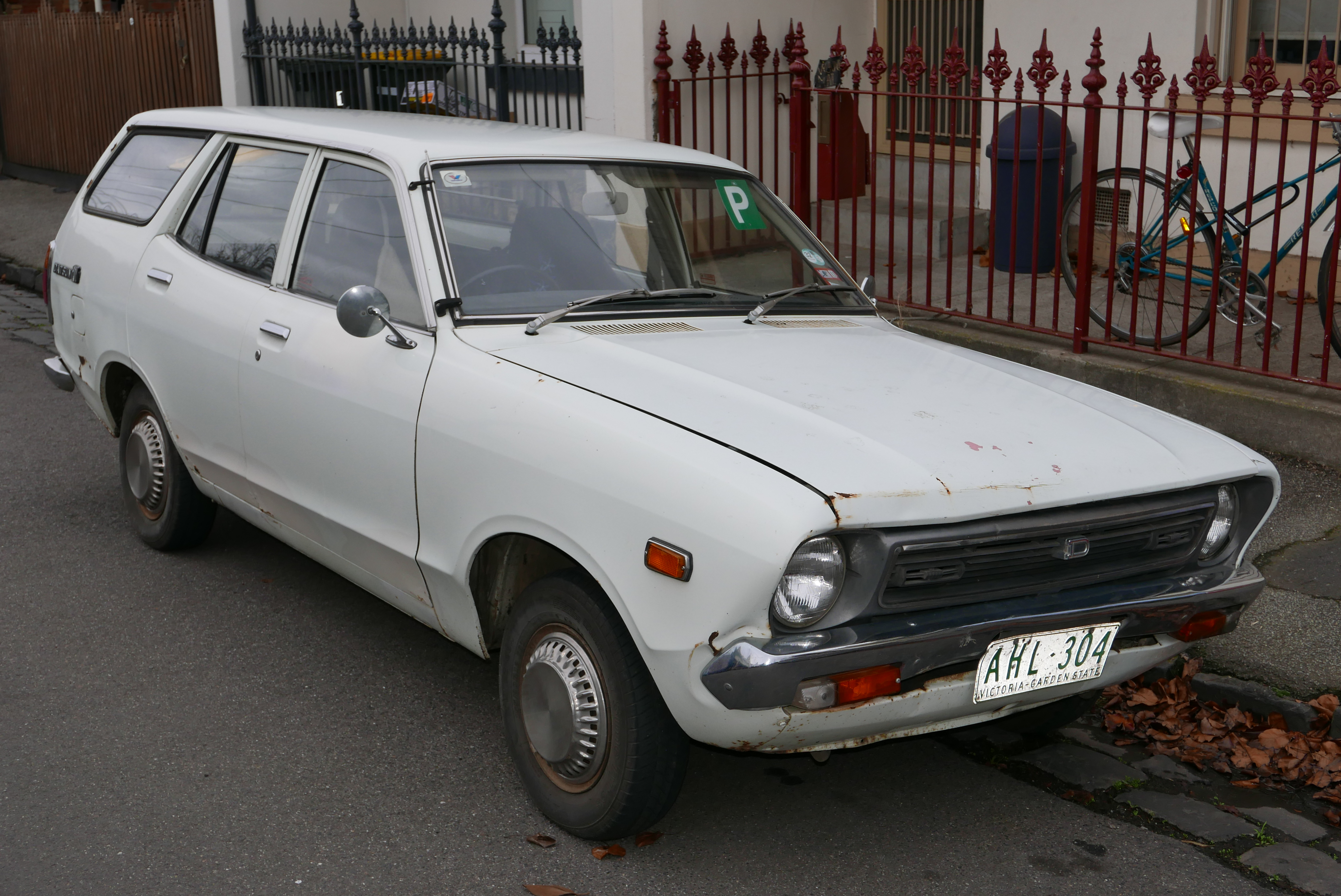 1978 Datsun 120Y (B210) station wagon. Photographed in Fitzroy North, Victoria, Australia. Vehicle registration enquiry results Jurisdiction Victoria Registration AHL304 Chassis code Not available Engine code A12192470D Compliance date Not available Year of manufacture 1978